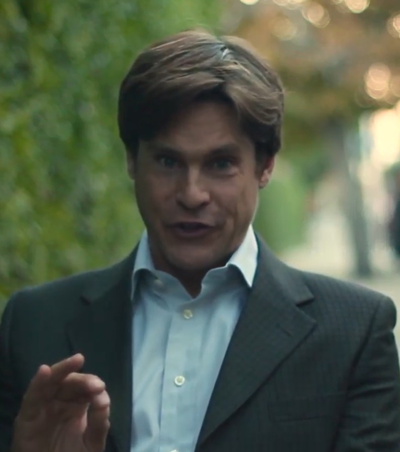 William McNamara in a interview in 2014